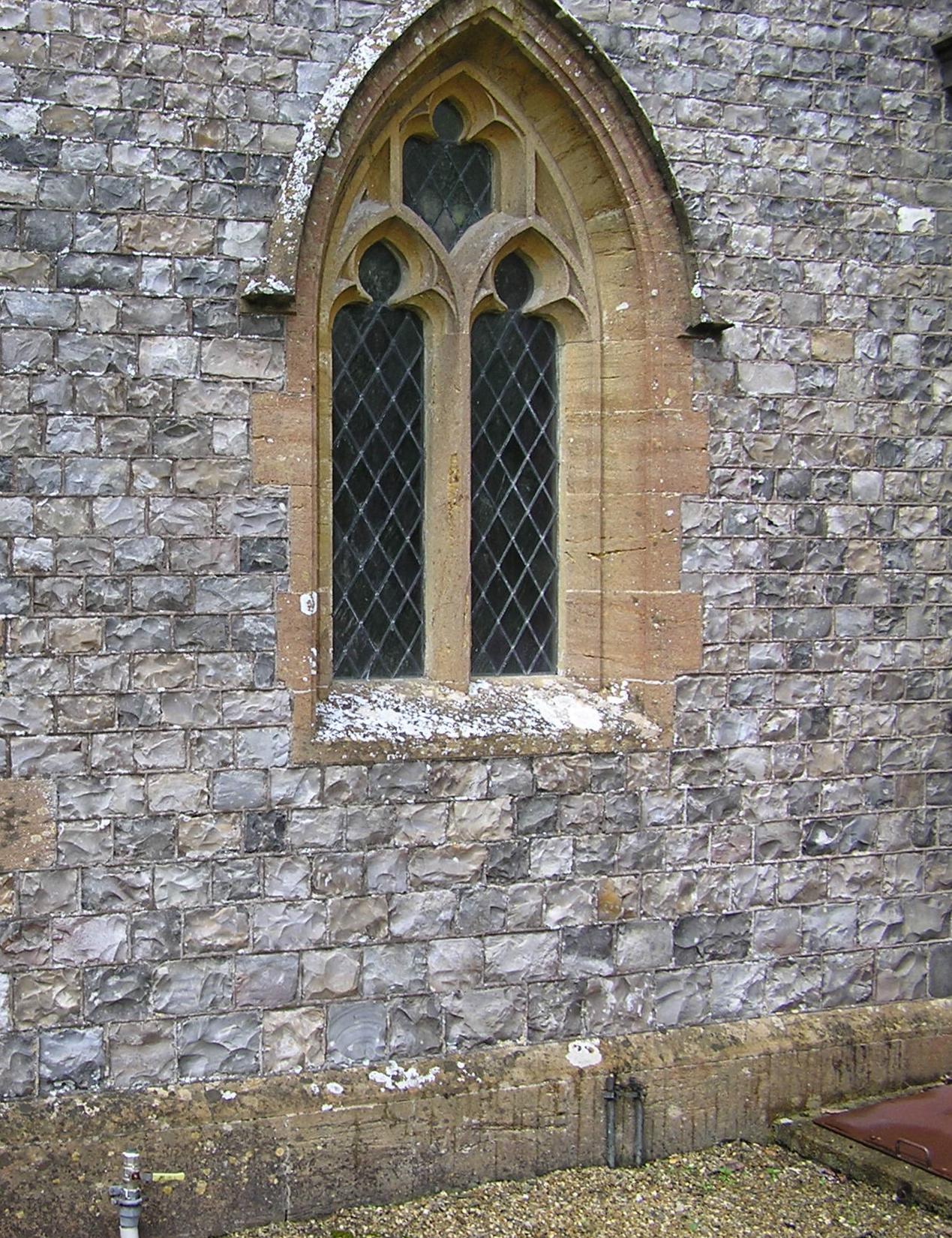 A flint church - the Parish Church of Saint Thomas, in Cricket Saint Thomas, Somerset, England. Note that this church is inside a Warner Breaks Holiday Village, but the public are free to visit it. The “bricks” width varies between about 3 and 5 inches. Taken by Adrian Pingstone in July 2007 and placed in the public domain.